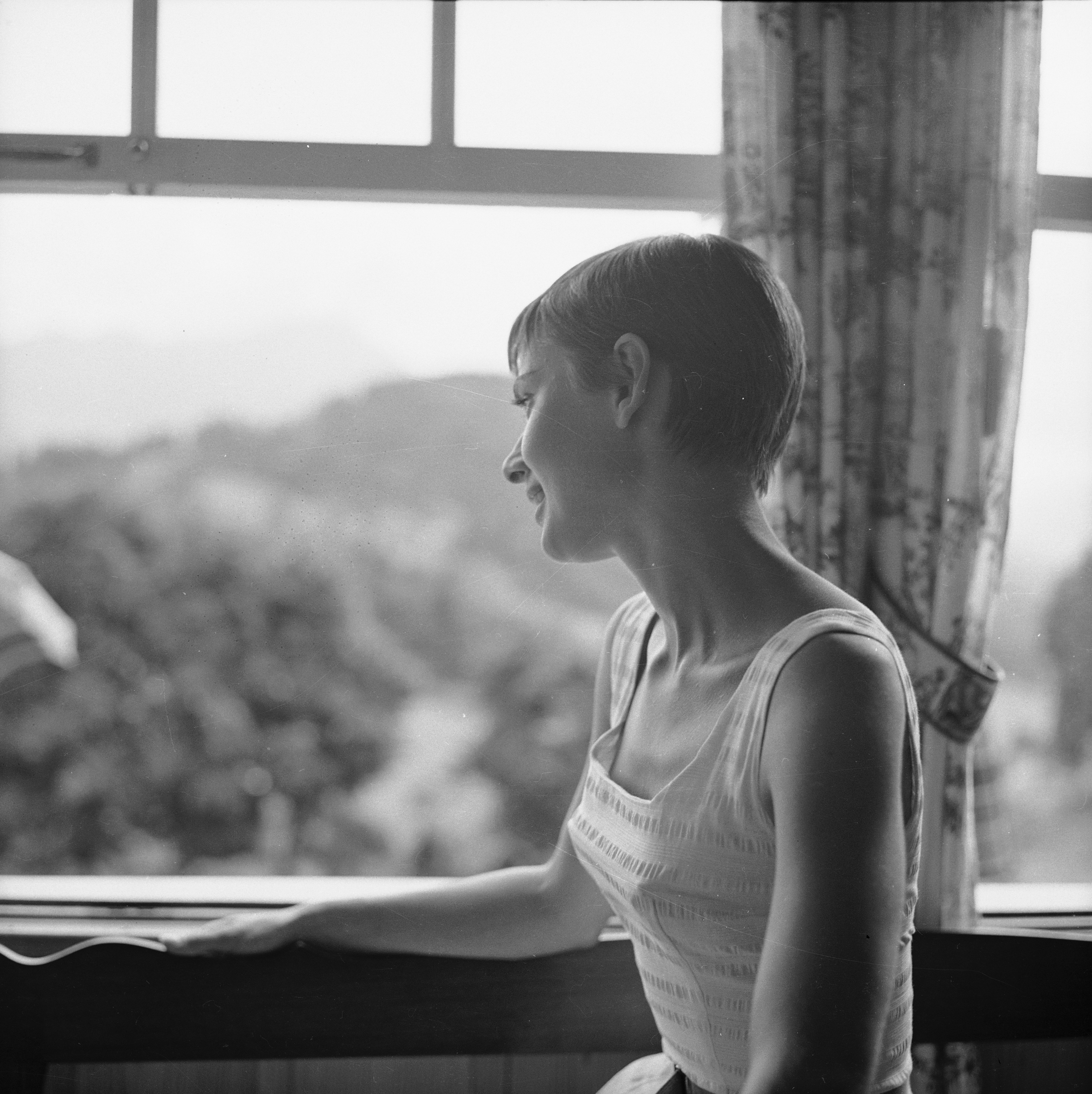 Audrey Hepburn, Bürgenstock, Switzerland